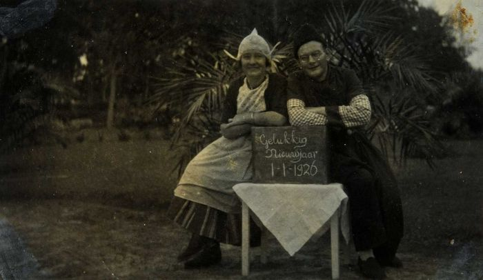 Salomon Gerrit Fukken and his wife Guurtje Bakker dressed in traditional Dutch clothes, wishing a happy new year to the family in Holland